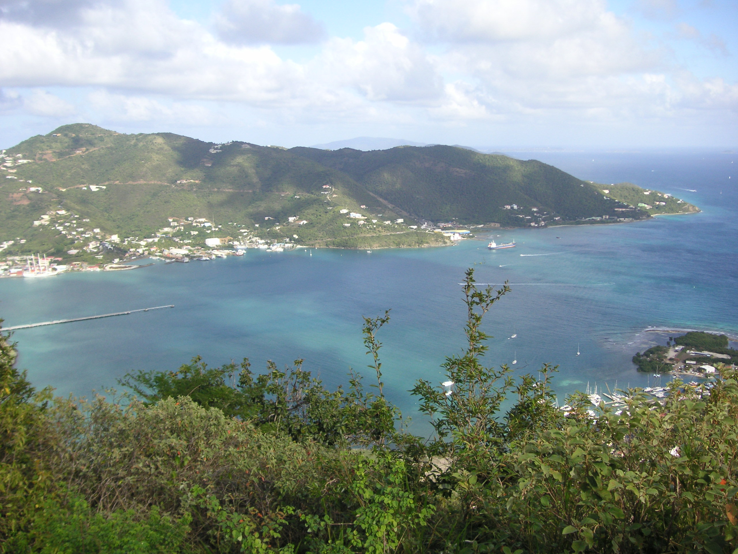 Photograph of the view of Road Harbour from the ruins of Fort Charlotte, Tortola